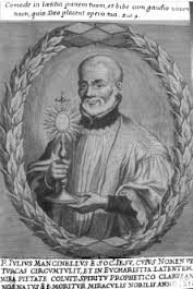 Painting of Giulio Mancinelli (1537-1618) published in work "Vita magni servi Dei P. Julii Mancinelli" published in 1677